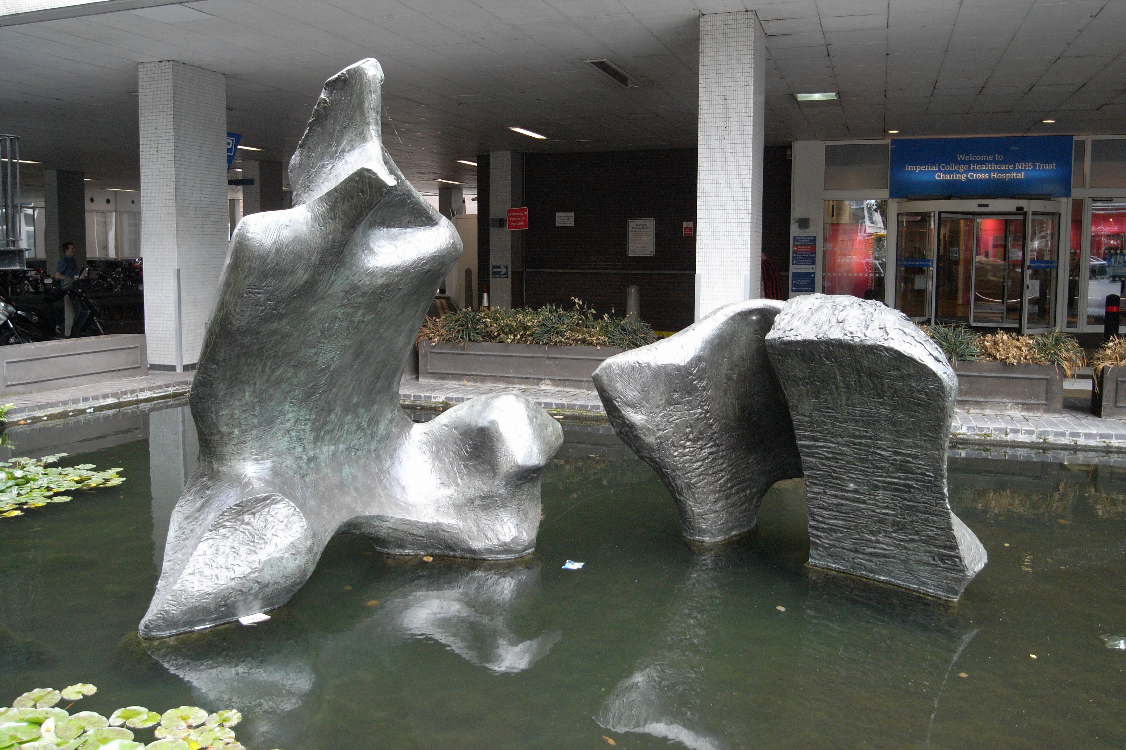 Henry Moore statue at main entrance of Charing Cross Hospital, Hammersmith, London. Plaque reads 'HENRY MOORE OM / 1898 - 1986 / RECLINING FIGURE, 1962 / Halfsize model for sculpture at the Lincoln Centre, New York / Tate: Presented by the artist 1978'